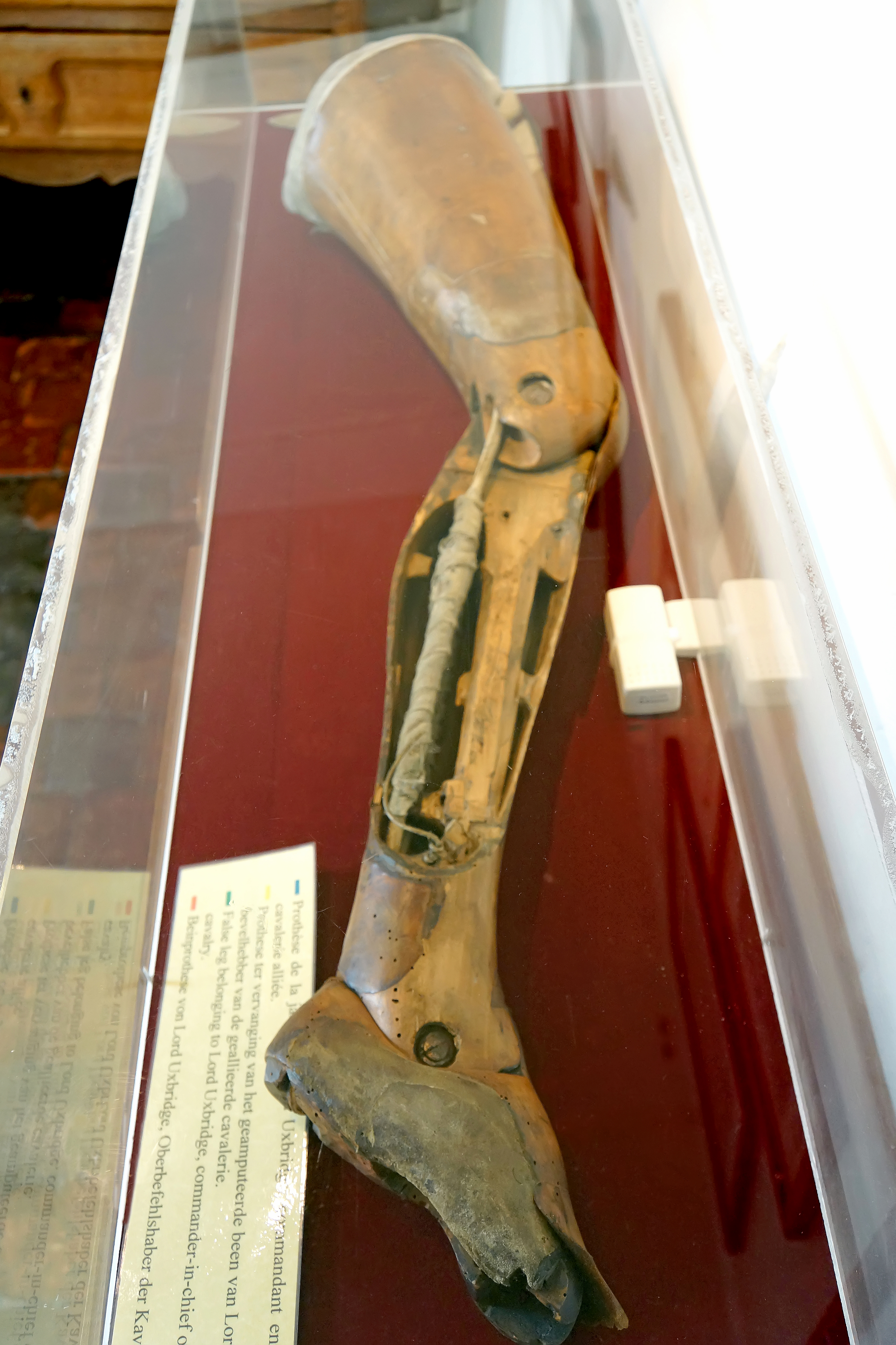 PLEASE, NO invitations or self promotions, THEY WILL BE DELETED. My photos are FREE to use, just give me credit and it would be nice if you let me know, thanks. This false leg belonged to Lord Uxbridge, commander-in-chief of the allied cavalry. After receiving his wound, Lord Uxbridge was taken to his headquarters in the village of Waterloo, There, the remains of his leg were removed by surgeons, without antiseptic or anaesthetics. Uxbridge used an articulated above-knee artificial leg invented by James Potts, with hinged knee and ankle and raising toes which became known as the Anglesey leg. This I found really amazing that it was so well created way back then.